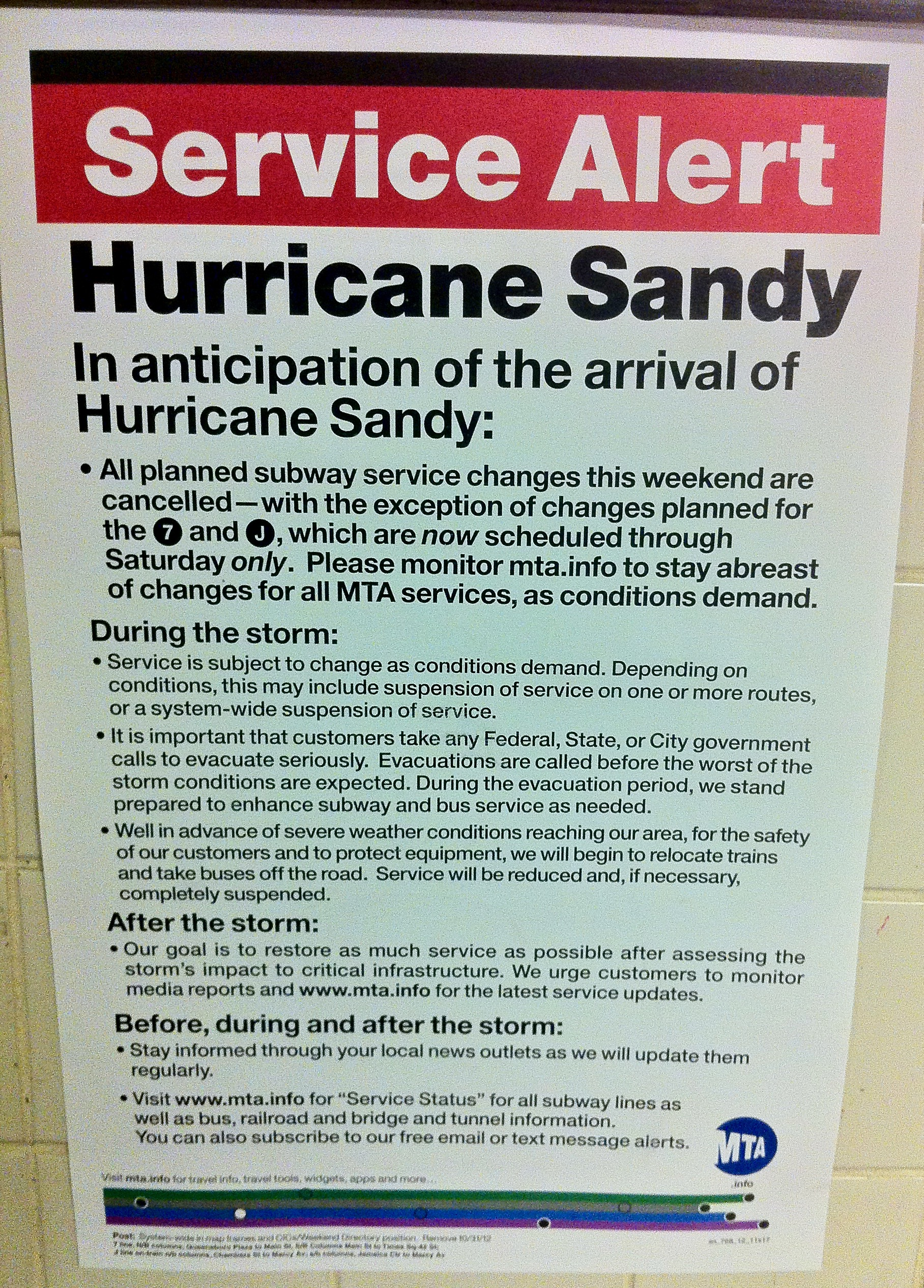 An MTA service alert posted at 46th Street–Bliss Street station advises of modifications to scheduled service changes, and warns travelers to be alert for potential service cancellations or even system-wide cancellations, due to impending Hurricane Sandy. Sandy would end up becoming the costliest hurricane in New York and United States history.